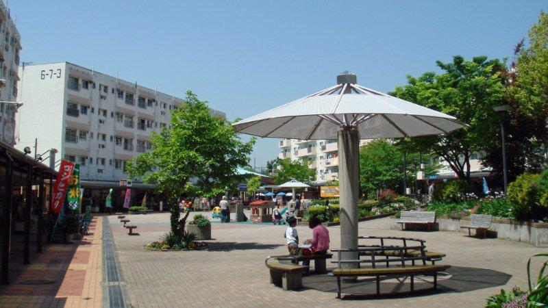 Tsurukawa-Center at Tsurukawa, Machida, TOKYO